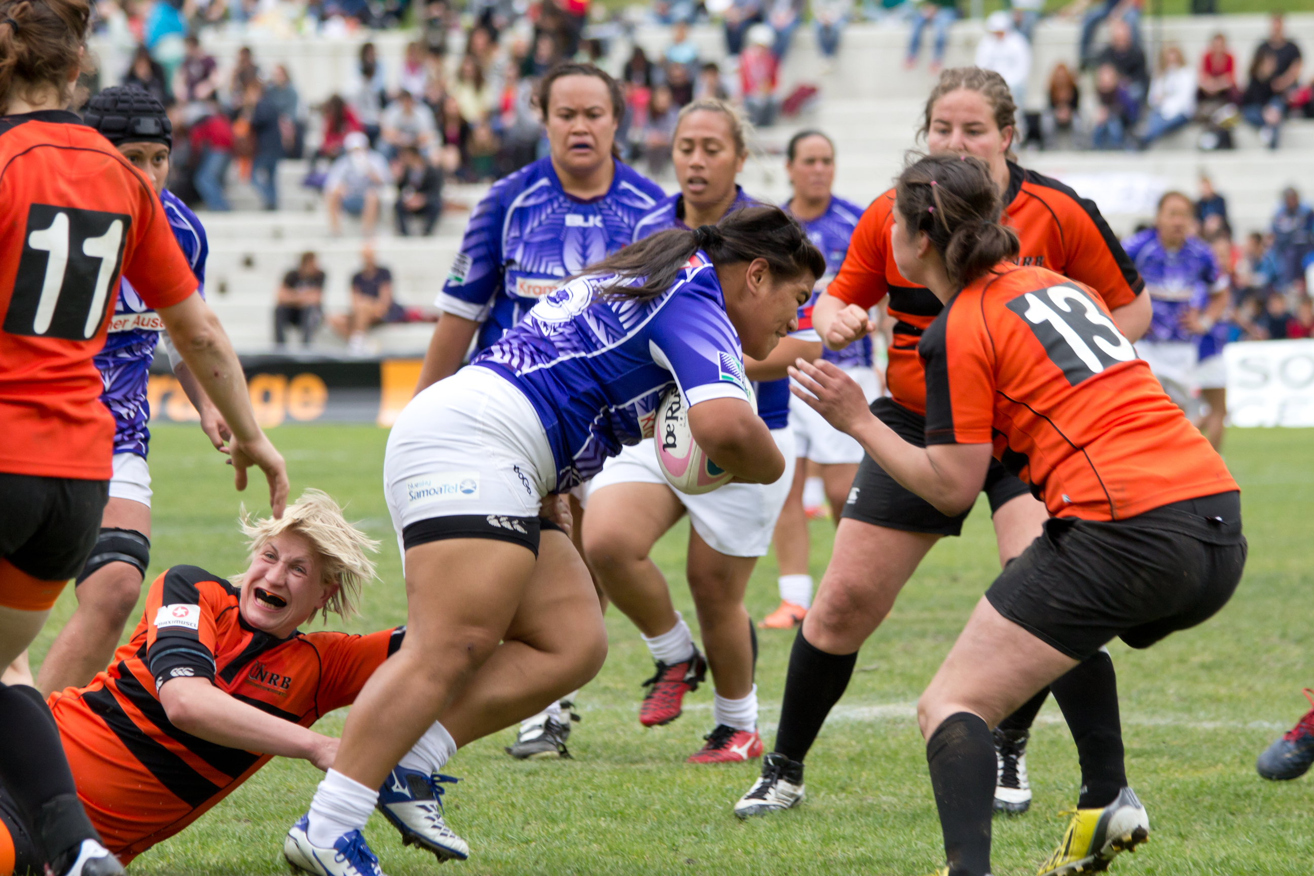 Game of the 2013 Women's European Qualification Tournament between Samoa and the Netherlands 33(b)-14.